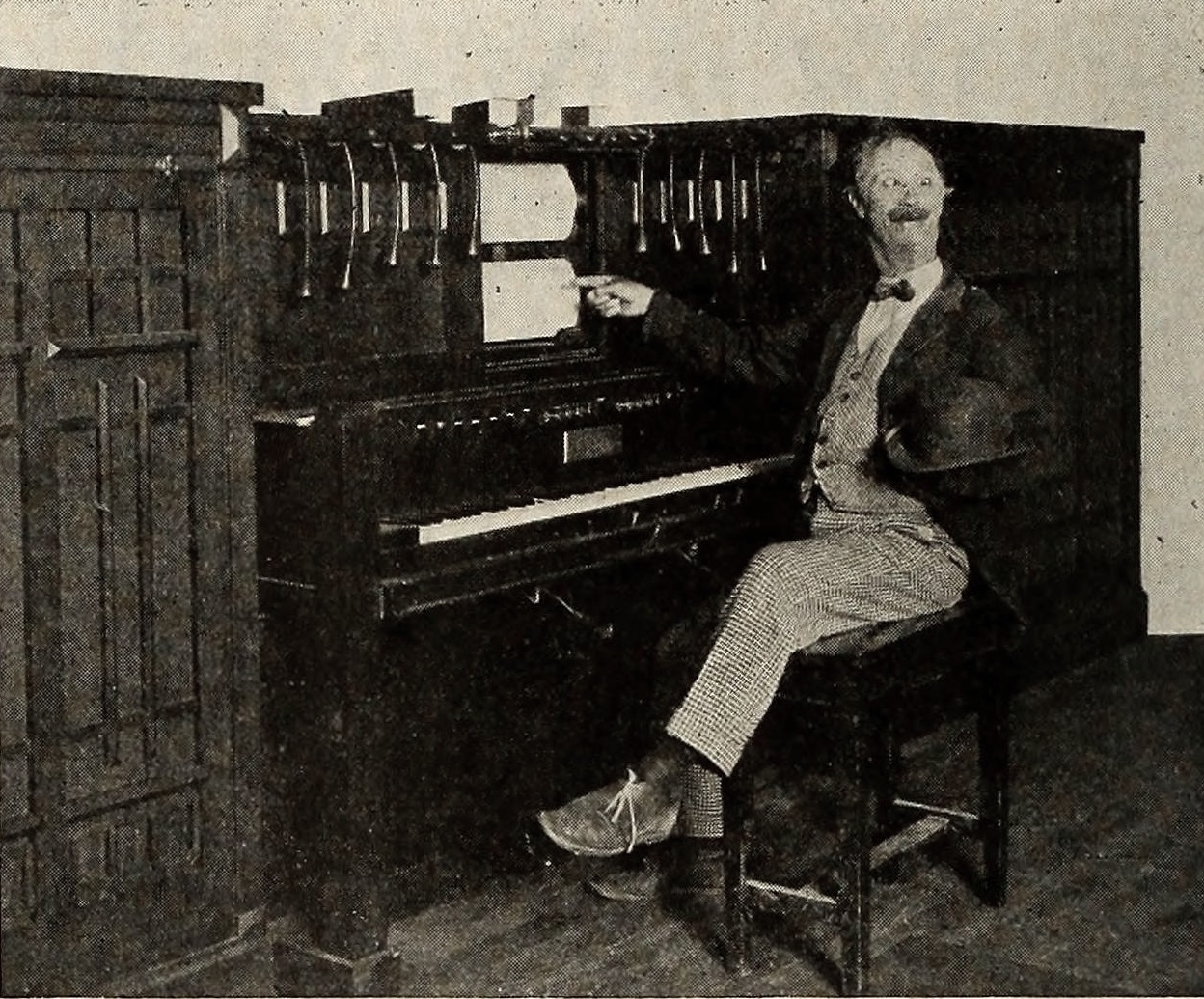 Ben Turpin with a "Fotoplayer" musical instrument (Original caption: Ben Turpin is also an admirer of the Fotoplayer)